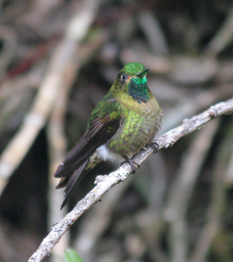 Tyrian Metaltail photo taken at Yanacocha Reserve,Ecuador.